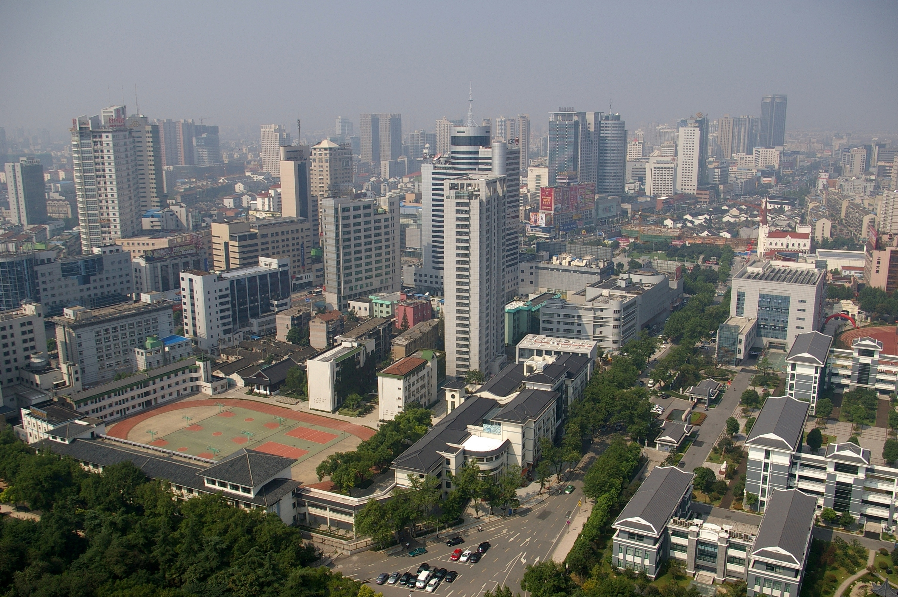 View of the city of Changzhou from Tianning pagoda